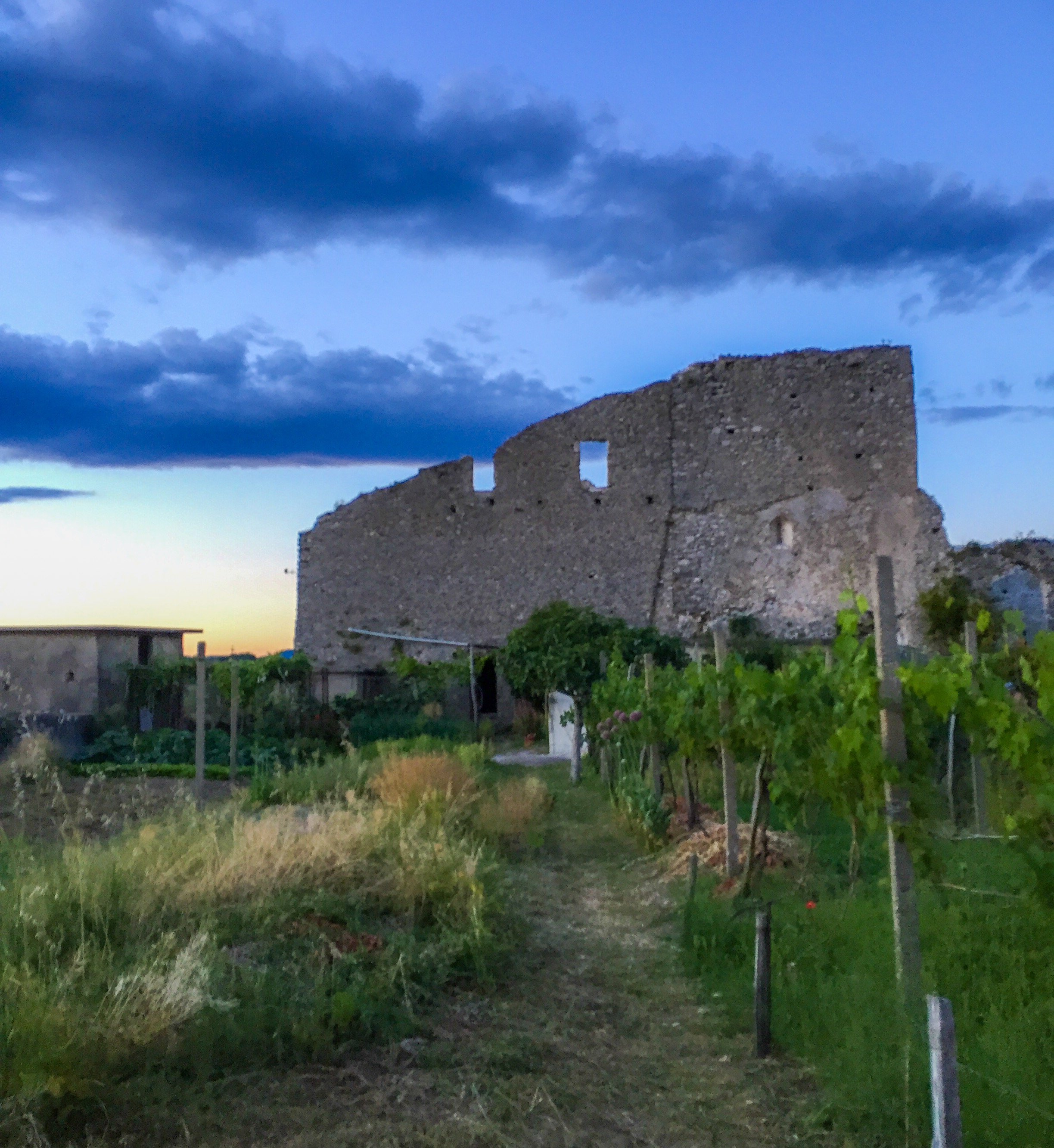 Ruins of the Ducal Palace